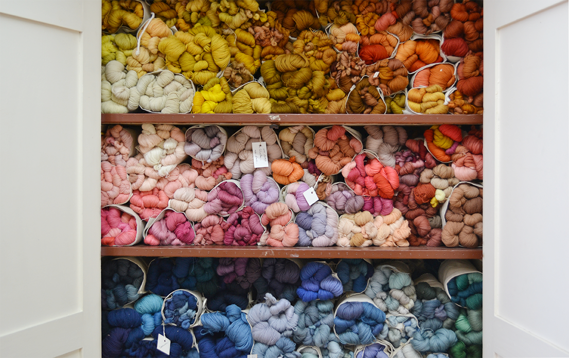 Wool use for carpet restauration This media was taken during the workshop of the 21 September 2018 at the Mobilier national, supported by Wikimédia France. English | français | +/−